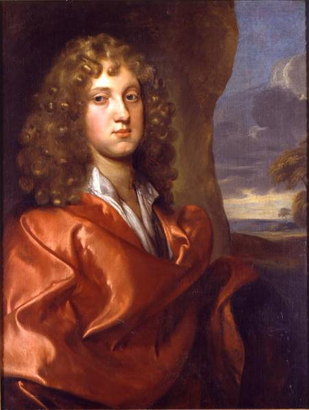 Anthony Ashley-Cooper, 2nd Earl of Shaftesbury (1652-1699)